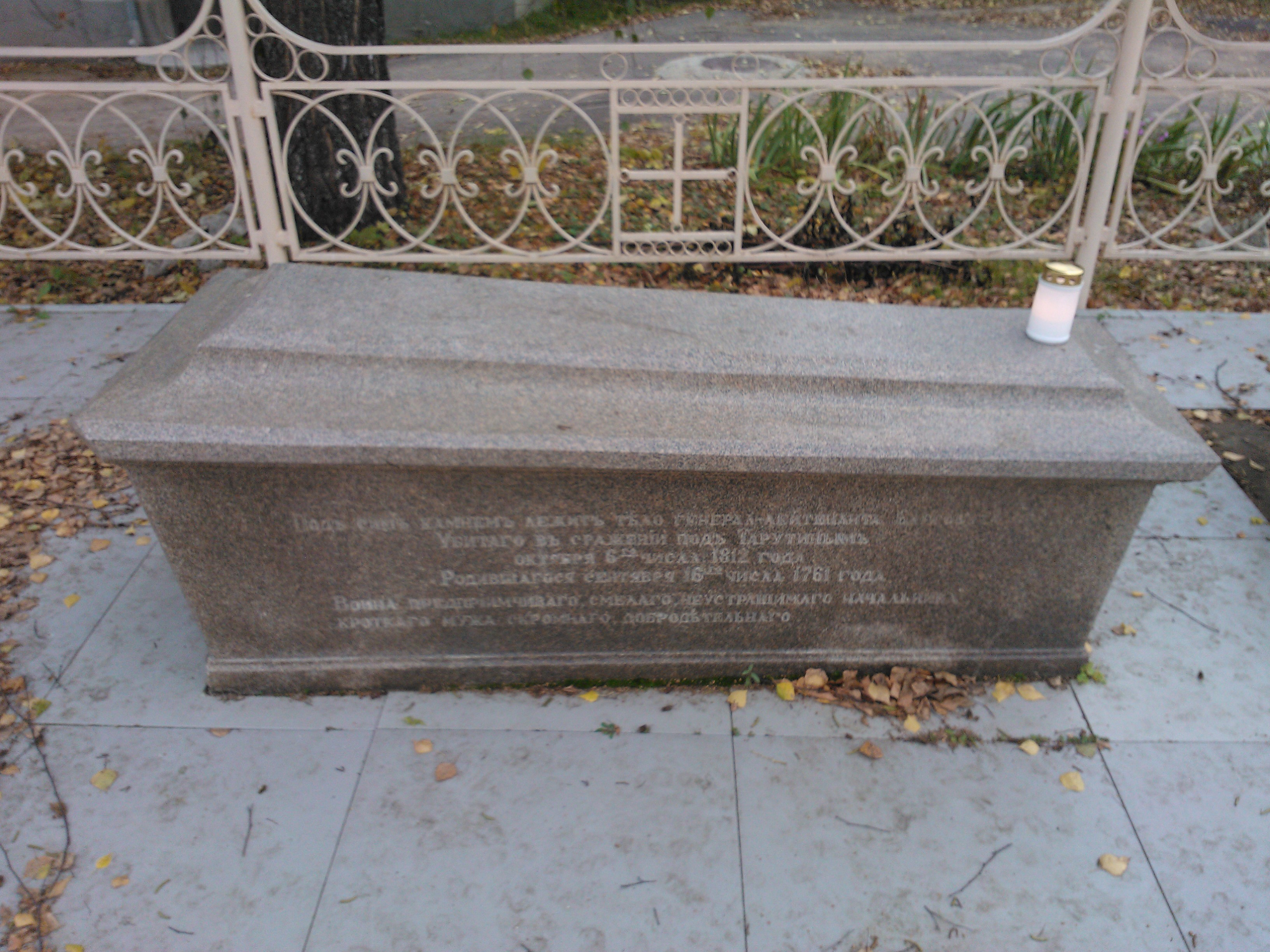 The tomb of Lt Gen Karl Gustav von Baggovut who died at the battle of Tarutino. The tomb is at the Lavretievski monastery Kaluga